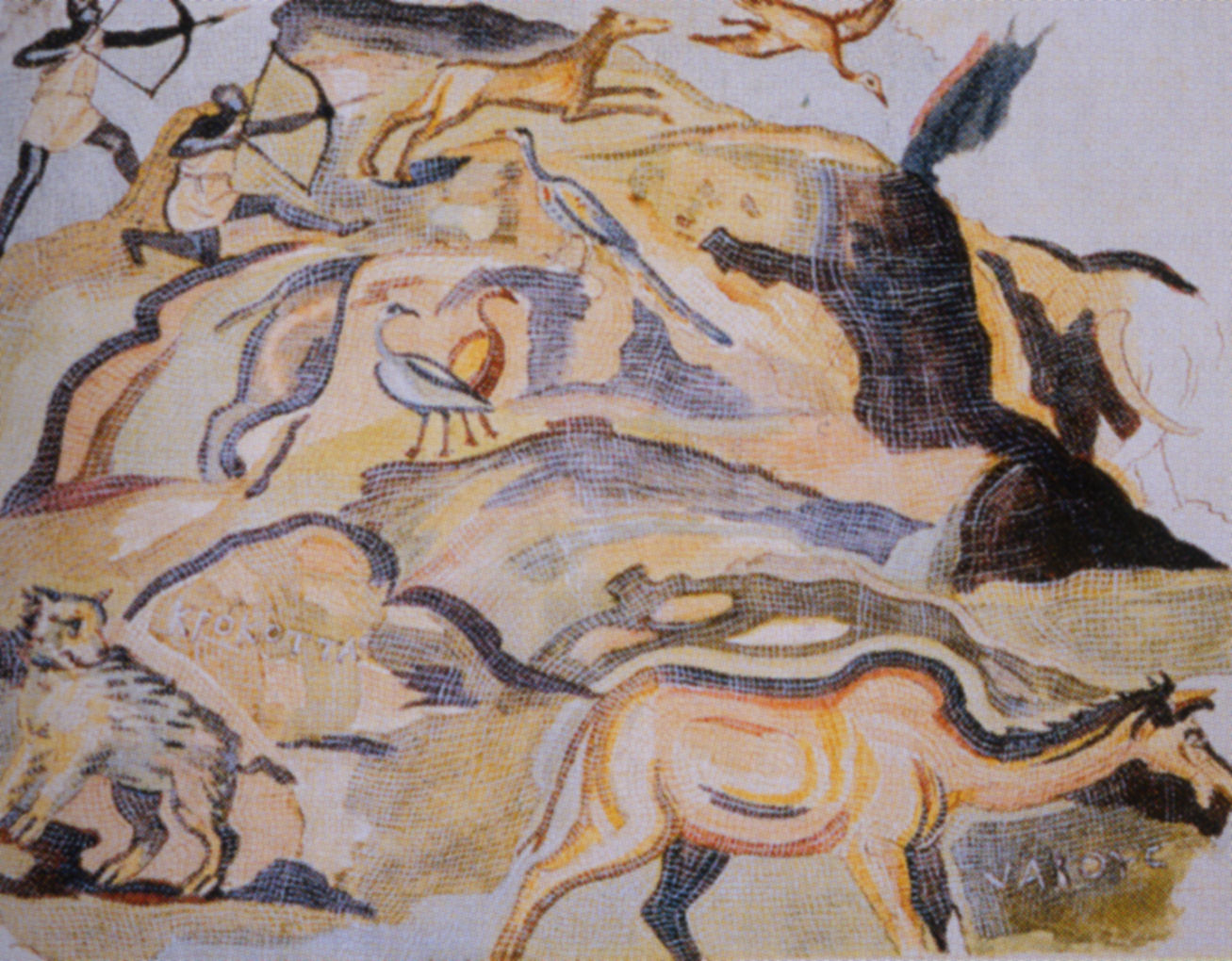 Detail of Nile mosaic from Palestrina (section 3). Copy of Cassiano dal Pozzo (around 1630). The Royal Collection 1994, Windsor castle.